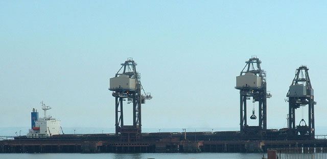 Iron Ore Jetty. Jetty dedicated to offloading ore for Port Talbot steelworks. Taken from public land 1km to the North.